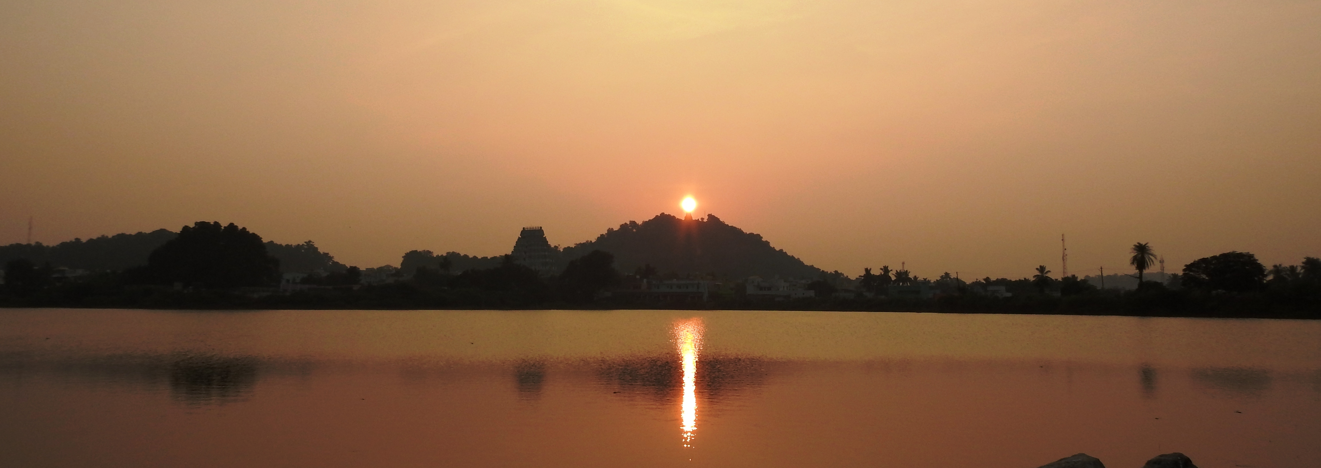 தேவிகாபுரம்